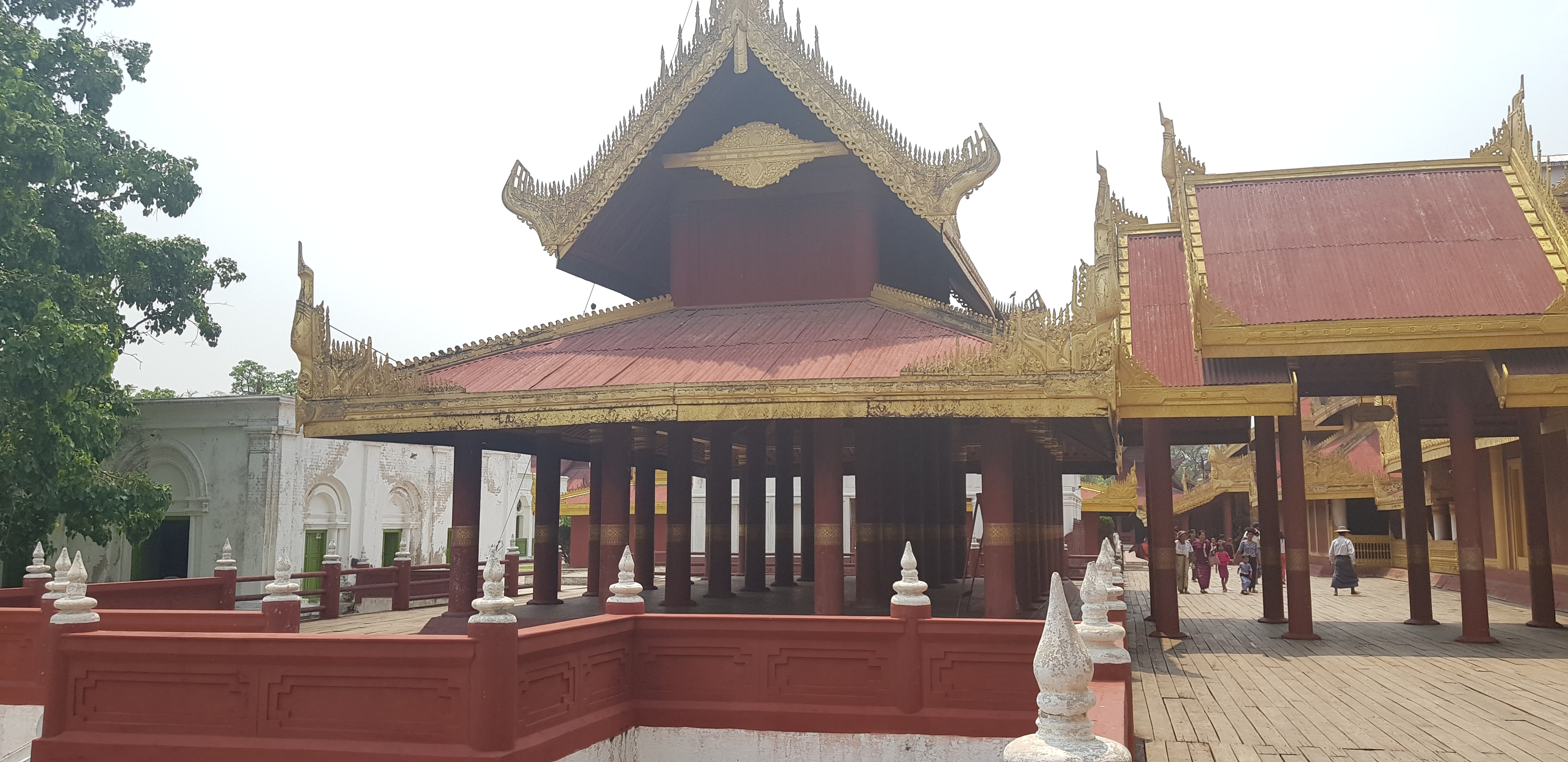 The Promenade Building of Mandalay Palace မြန်မာဘာသာ: ​လေသာ​ဆောင်